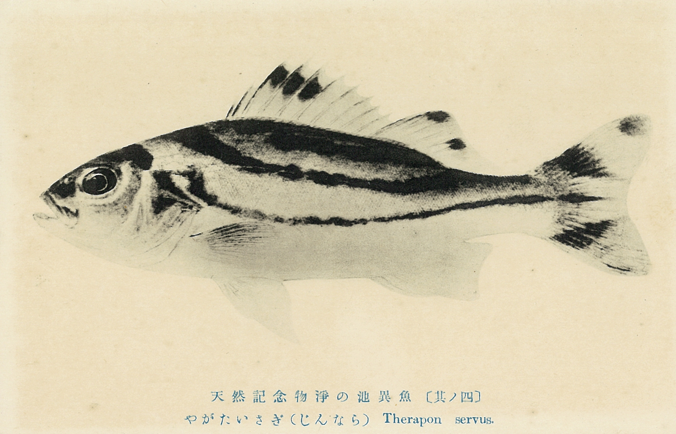 Jono-ike pond postcard. Terapon jarbua.1936